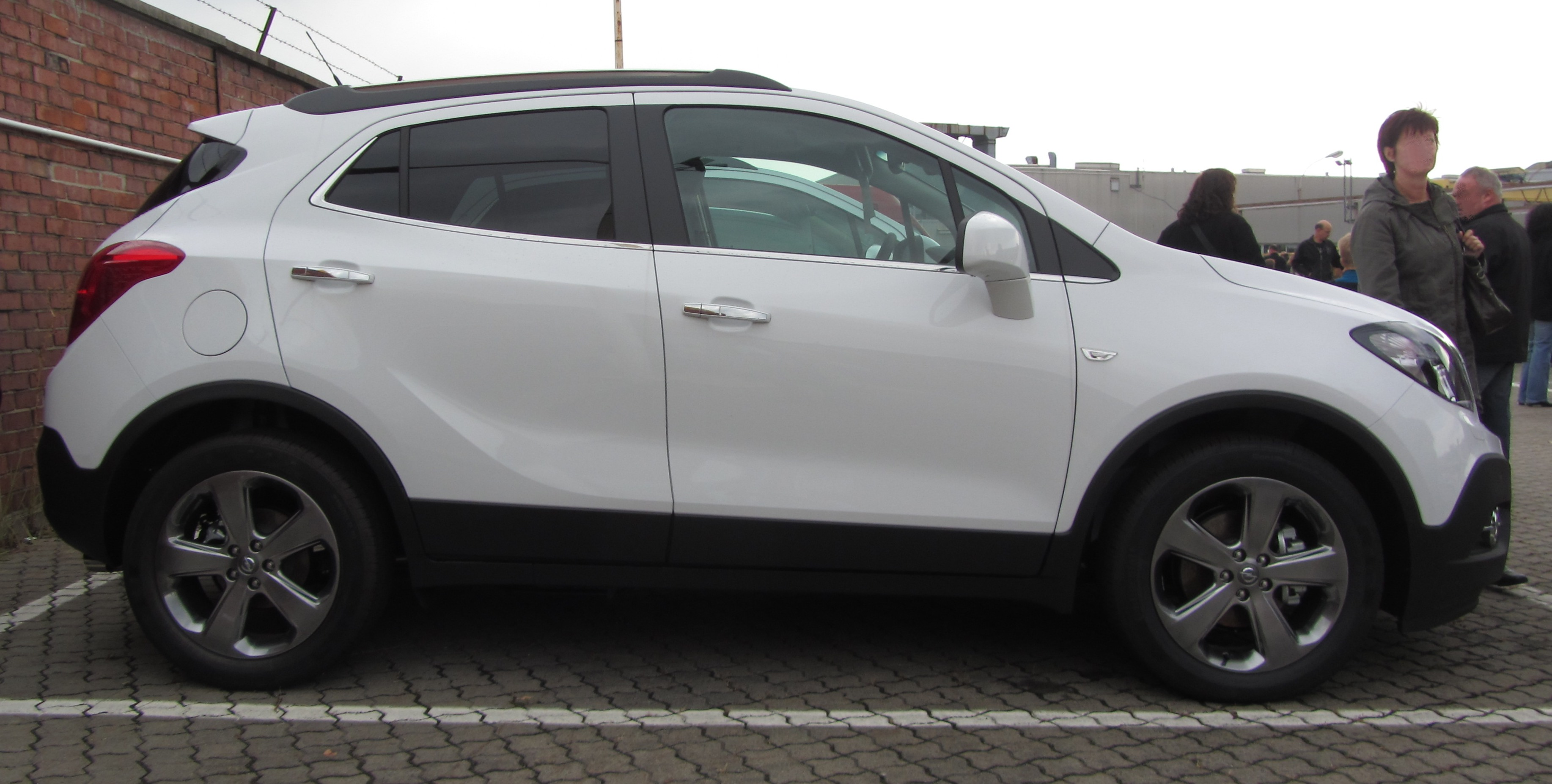 Opel Mokka white side view. Seen from lower viewpoint. Seen at the Rüsselsheim Opel plant on the "open day" on occasion of the 150 year company jubilee